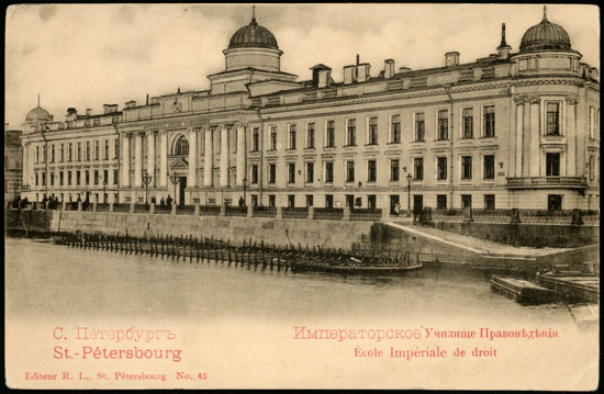 Saint Petersburg (Russia), Imperial School of Jurisprudence.